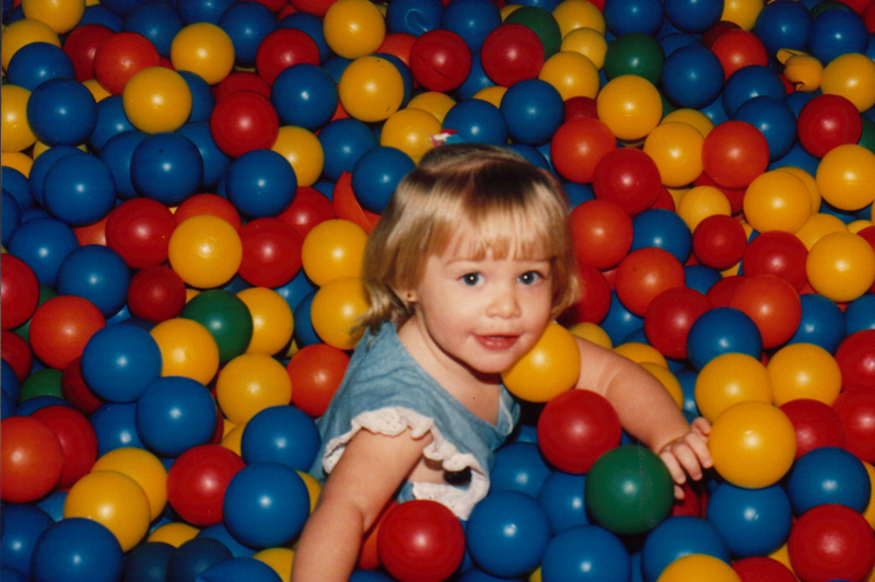 A toddler in a ball pit.